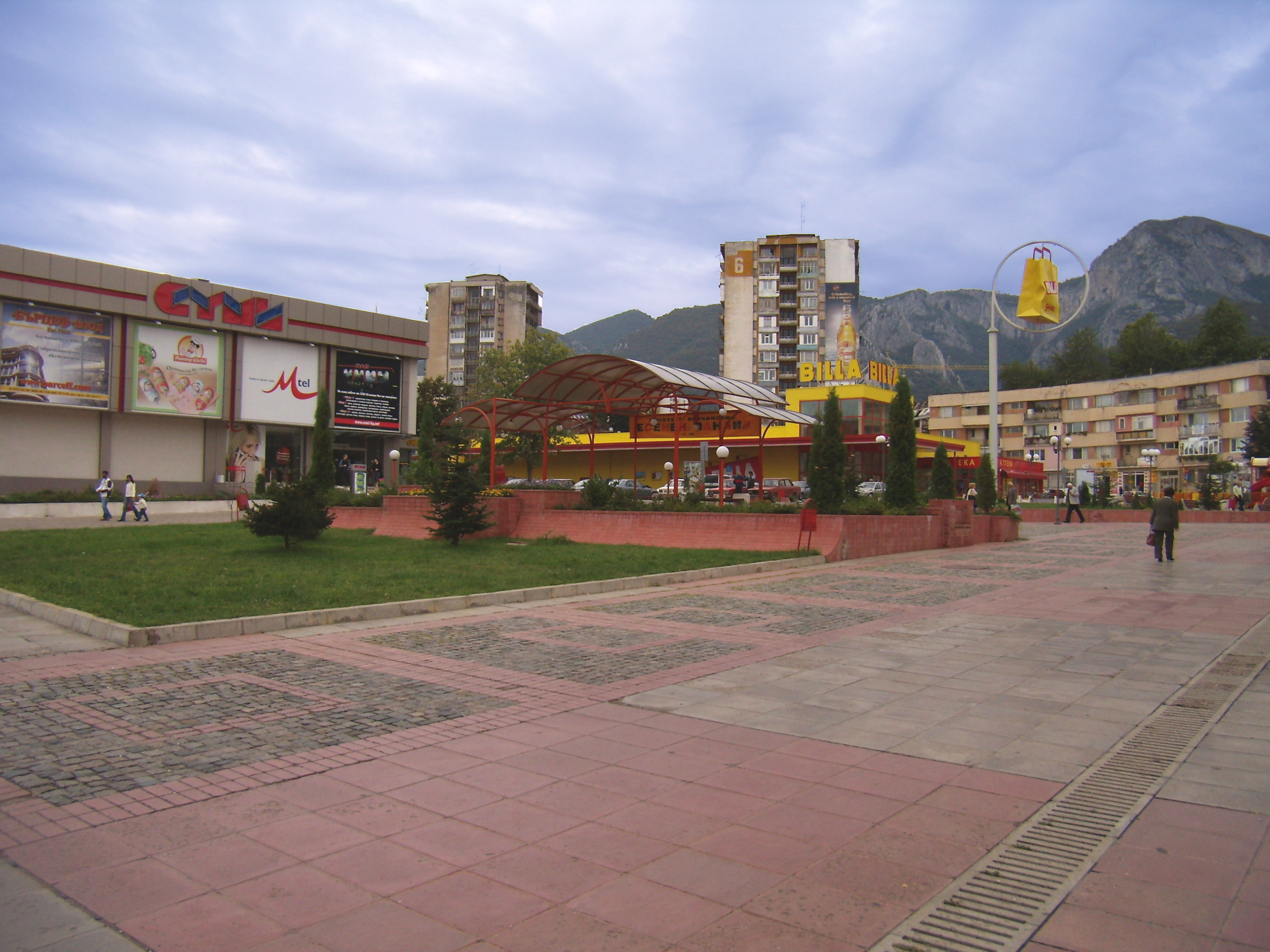 Macedonia Square in Vratsa, Bulgaria